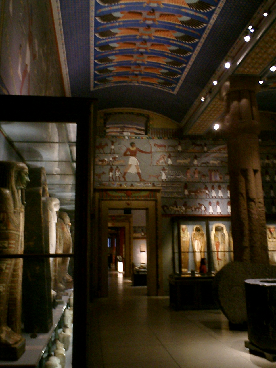 Description: View of one of the rooms of the Egyptian antiquities in the Kunsthistorisches Museum. Ein Raum der ägyptologischen Sammlung im Kunsthistorischen Museum in Wien. Source: self-made, I release it into the public domain.